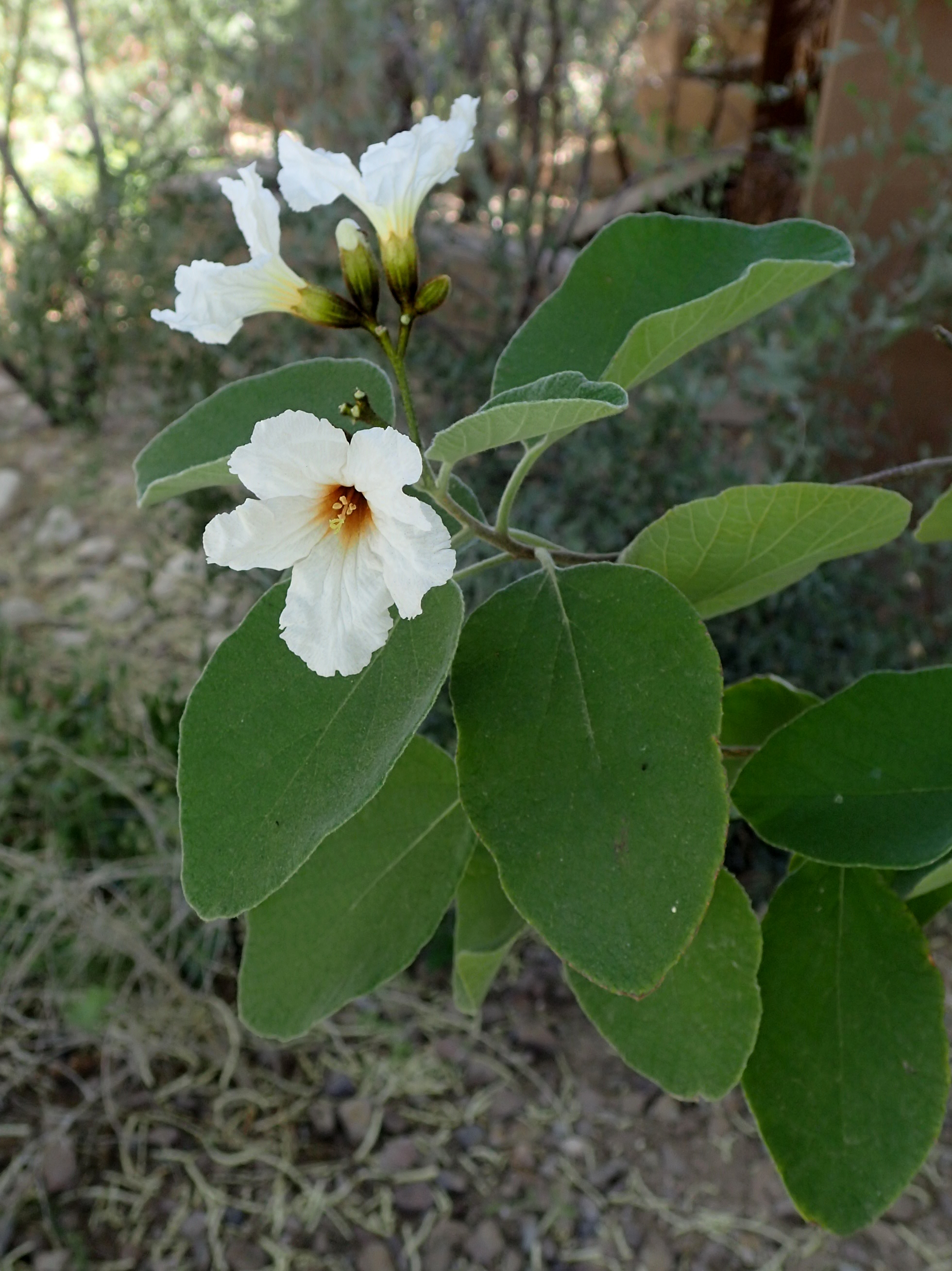 Cordia boissieri at Springs Preserve in Las Vegas